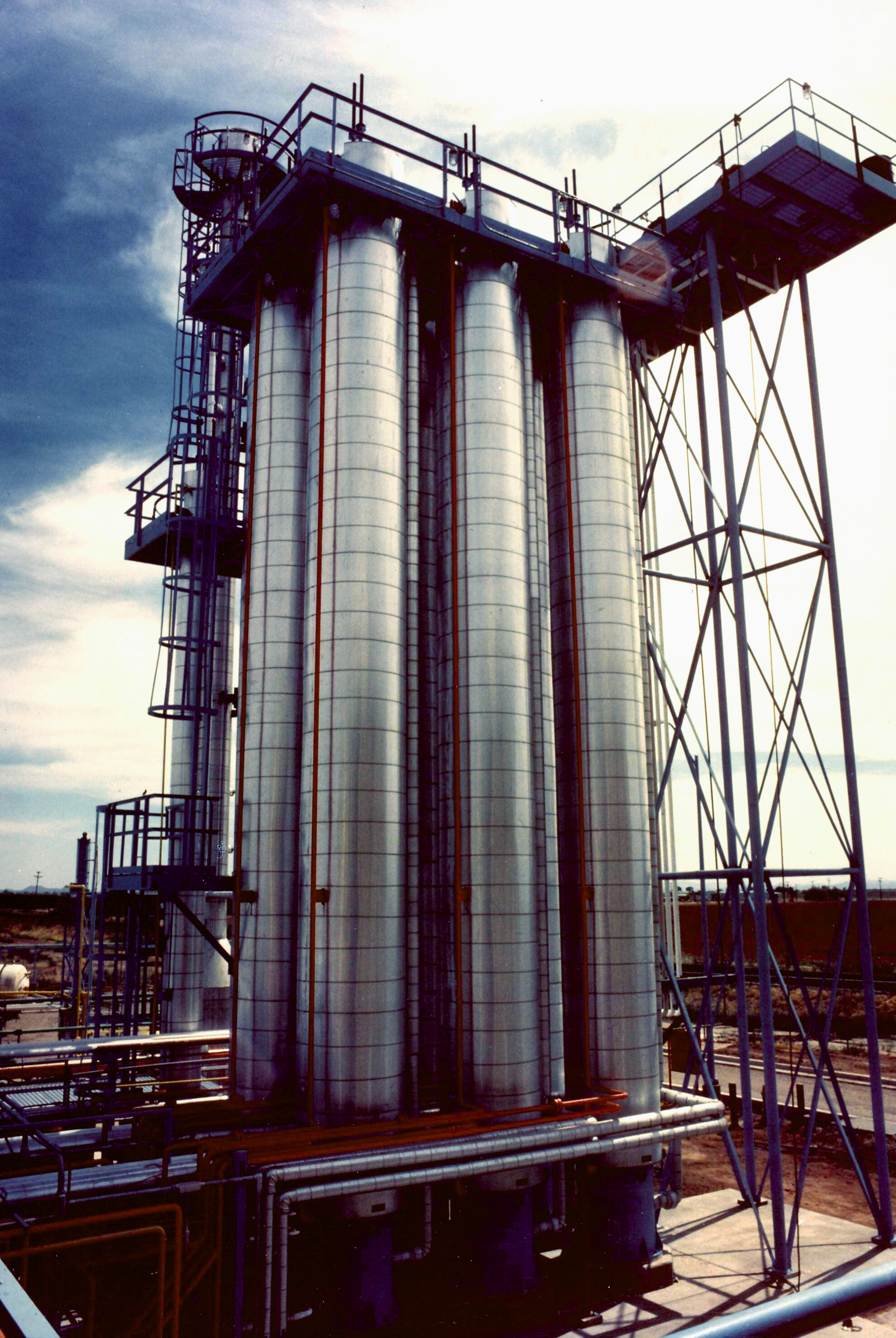 Chemical Processing Equipment at a Poly-Silicon Plant